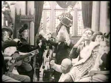 Photo of Murnau´s film "Der Knabe in Blau"